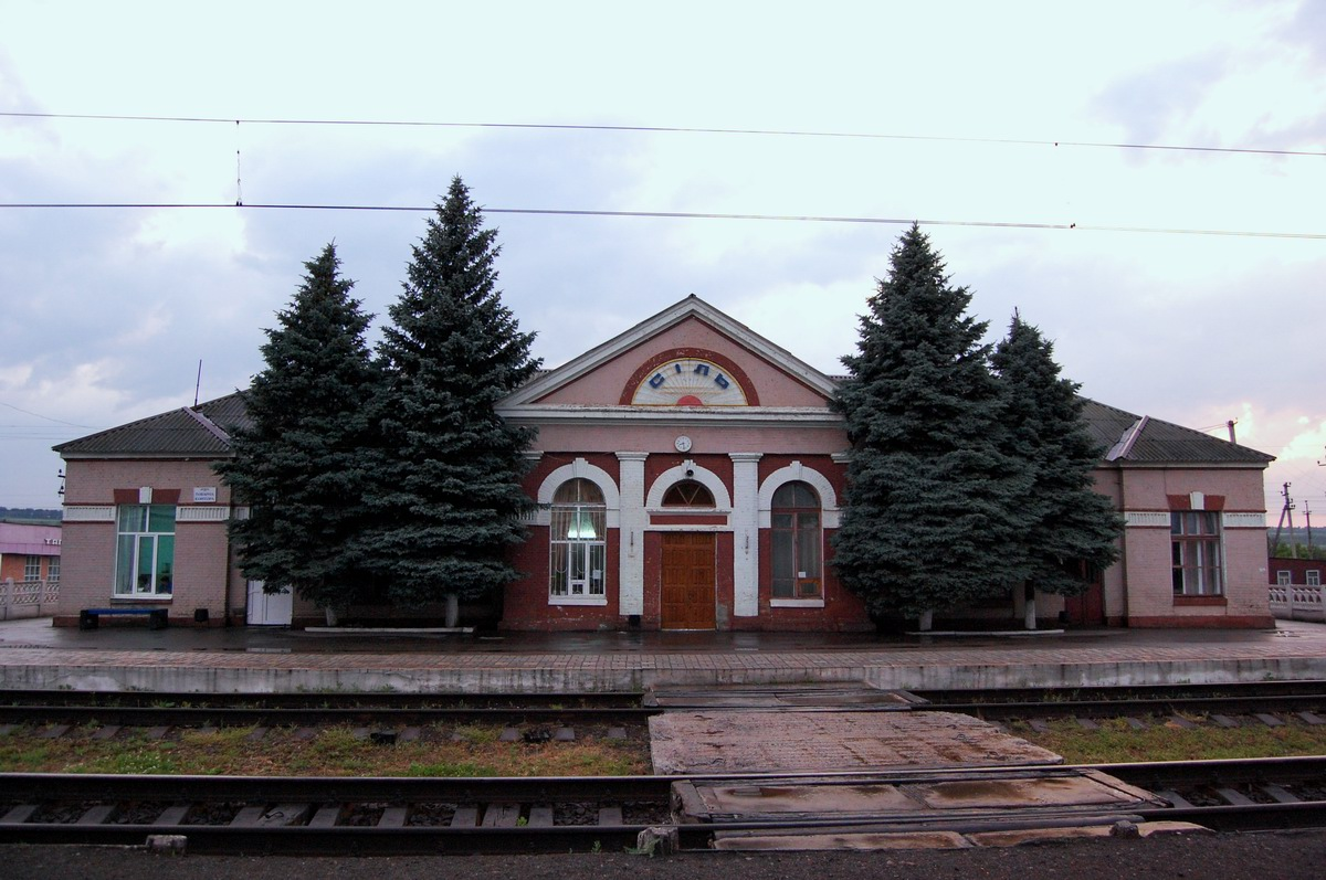 Railway station Sil'